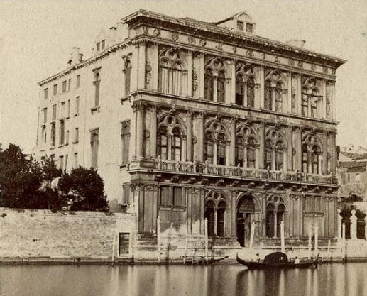 Carlo Naya (1822-1881) - Venice. Palazzo Vendramin (Ca' Vendramin Calergi). 1870s. Photo inscribed to Marie-Caroline de Bourbon-Siciles, Duchesse de Berry (1798-1870) (see verso)